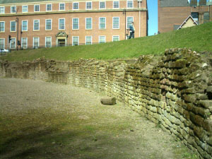 Chester Amphitheatre (a Roman amphitheatre) in Chester, Cheshire, England.